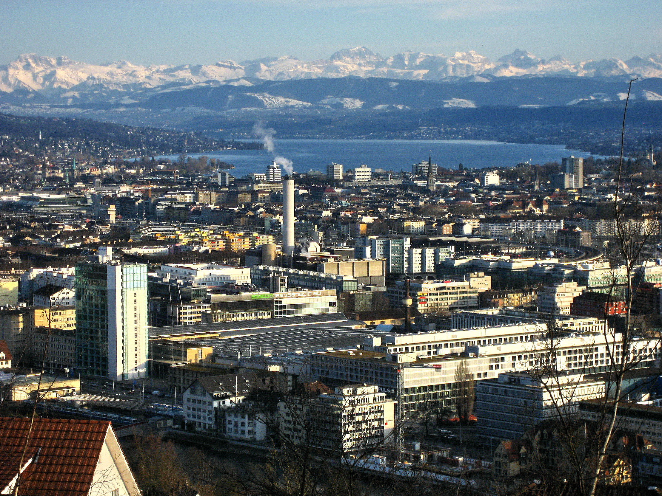 City of Zurich, Zürichsee (Lake Zürich), Zimmberberg (to the right) and Glarus Alps, as seen from Käferberg-Waidberg hills.